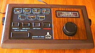 Video pinball console from my site. I am the author, and credit must be maintained if used.